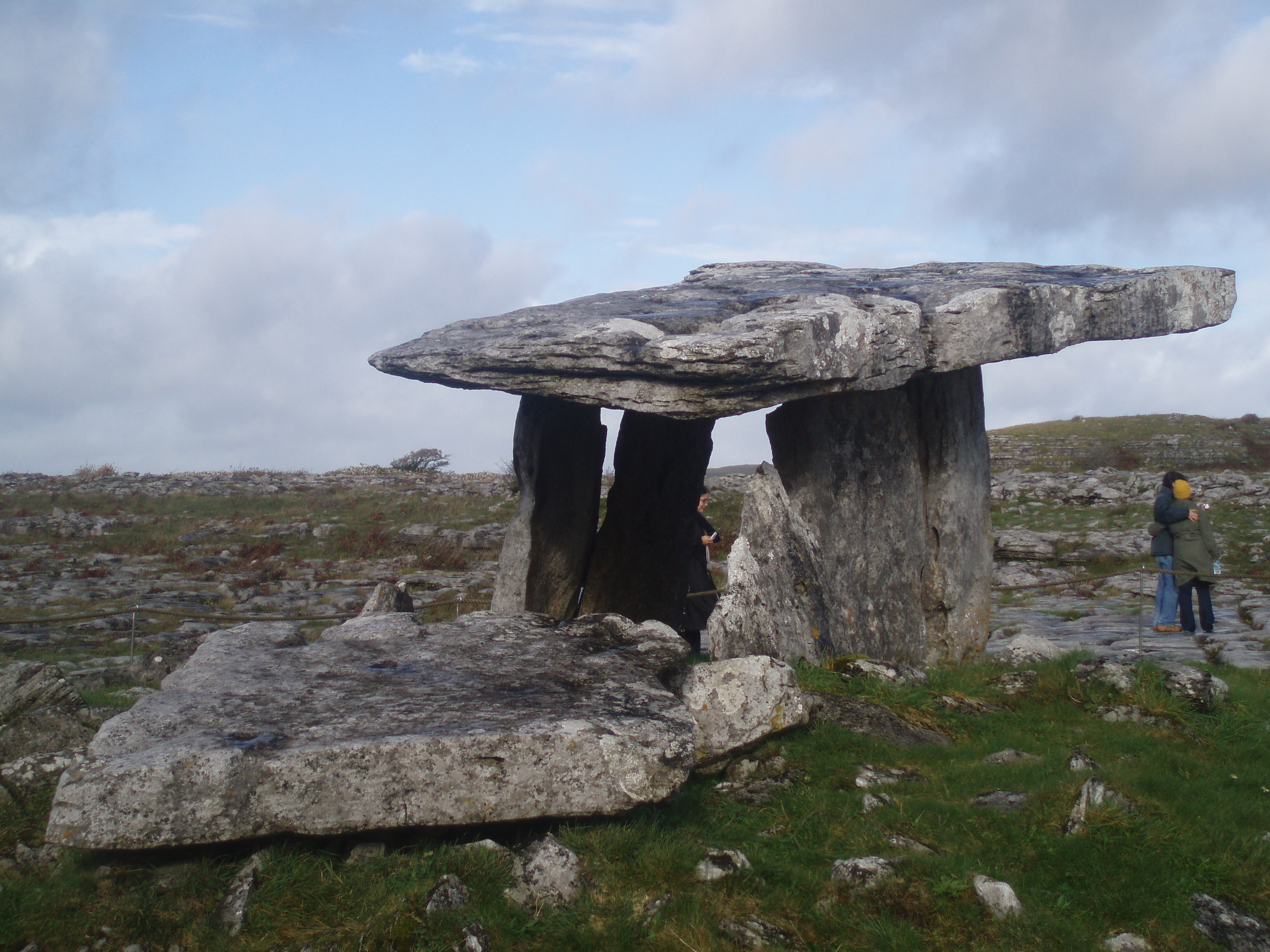 Dolmen of Poulnabrone, in The Burren, Ireland